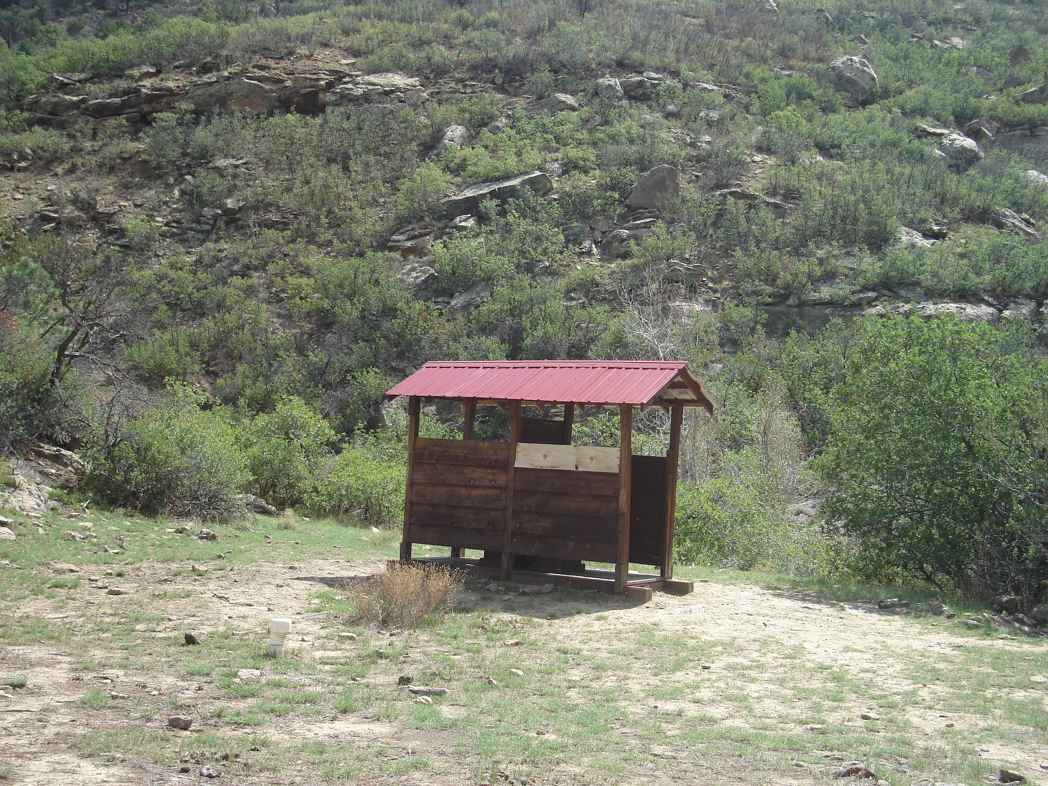 The "red roof inn" (outhouse) at the six-mile gate on the Philmont Scout Ranch, Cimarron, New Mexico.